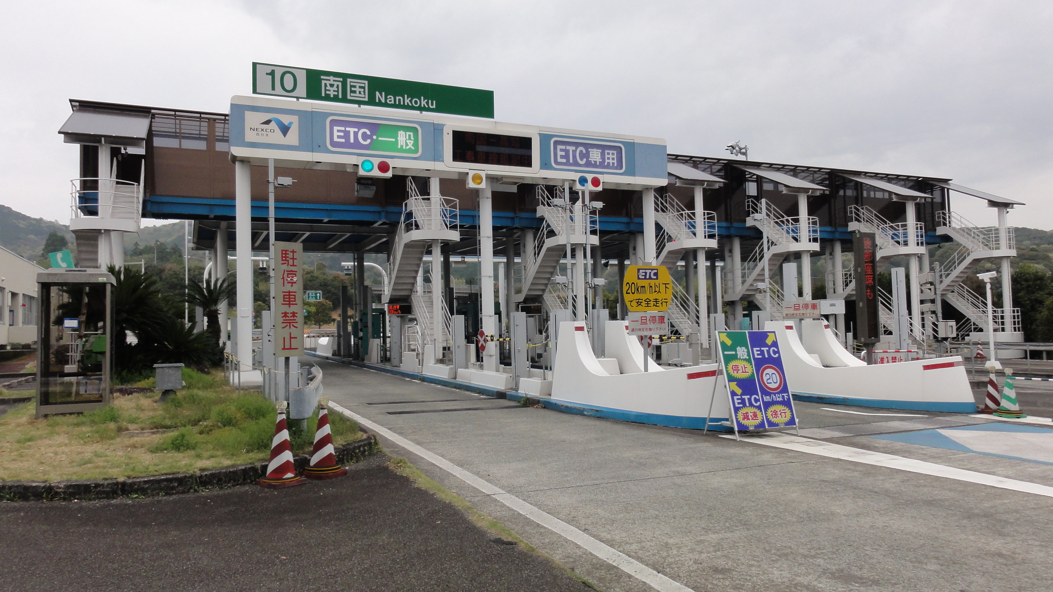 Nankoku Inter Change ,Kochi prefecture, Japan